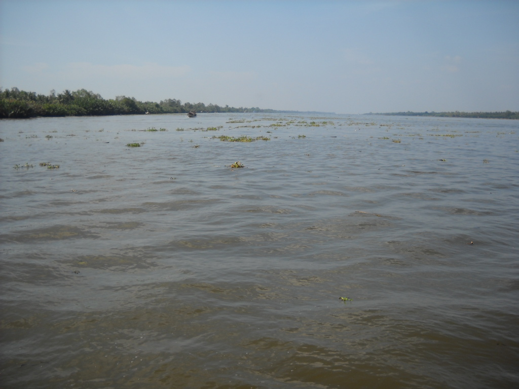 Cai River estuary flows into Rach Gia bay